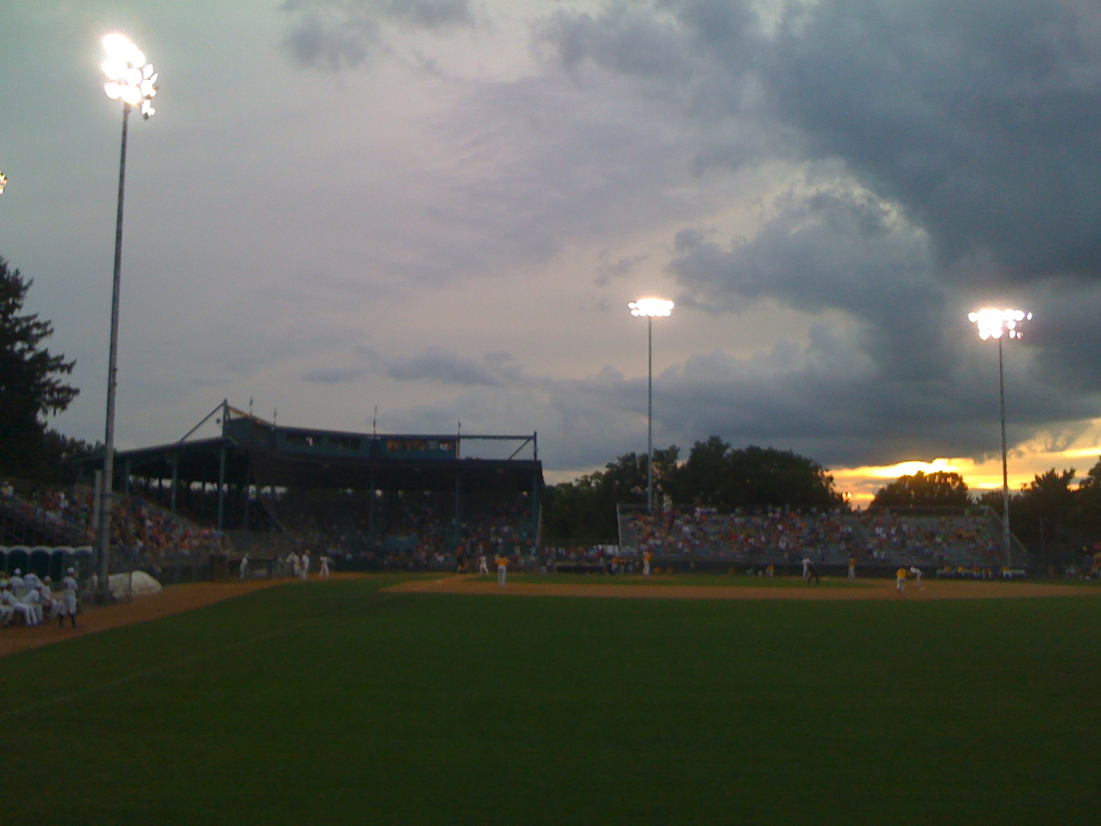 Carson Park baseball stadium